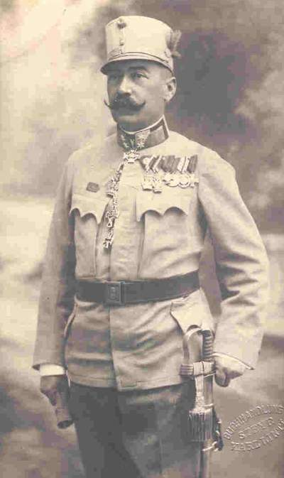 kuk General Ignaz Trollmann before 17 August 1917 (on 17 August 1917, he received the Knight's Cross of the Military Order of Maria Theresa, which is not visible in this portrait)